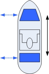 graph of ballast tanks in a ship